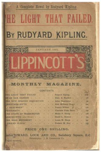 Cover of the novel The Light That Failed by Rudyard Kipling, published in January 1891 in Lippincott's Monthly Magazine.